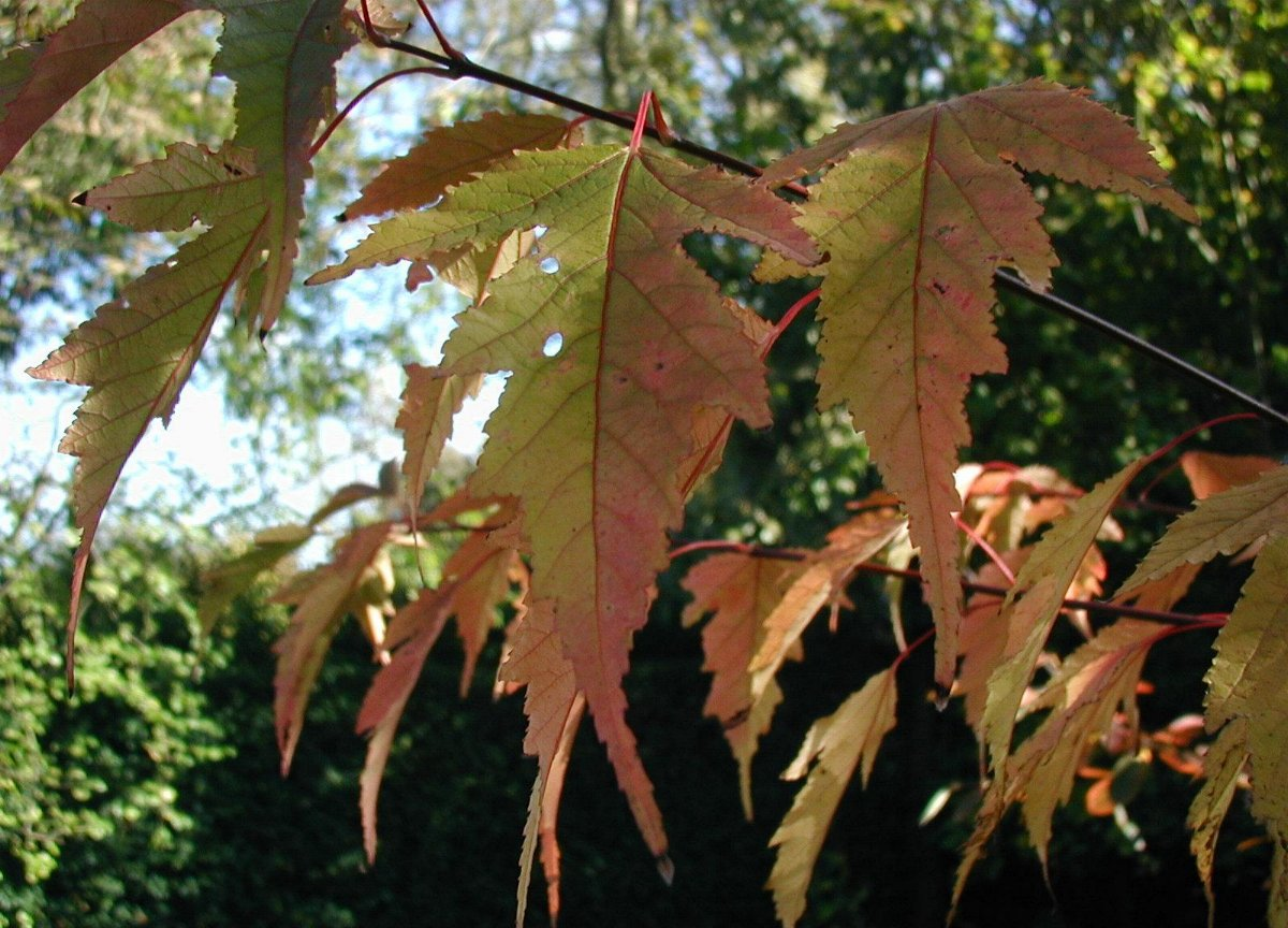 Acer ginnala: Autumn leaves. Photo from my garden in Denmark.